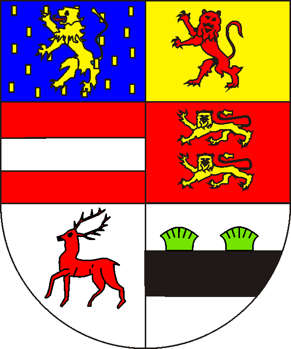 coat of arms